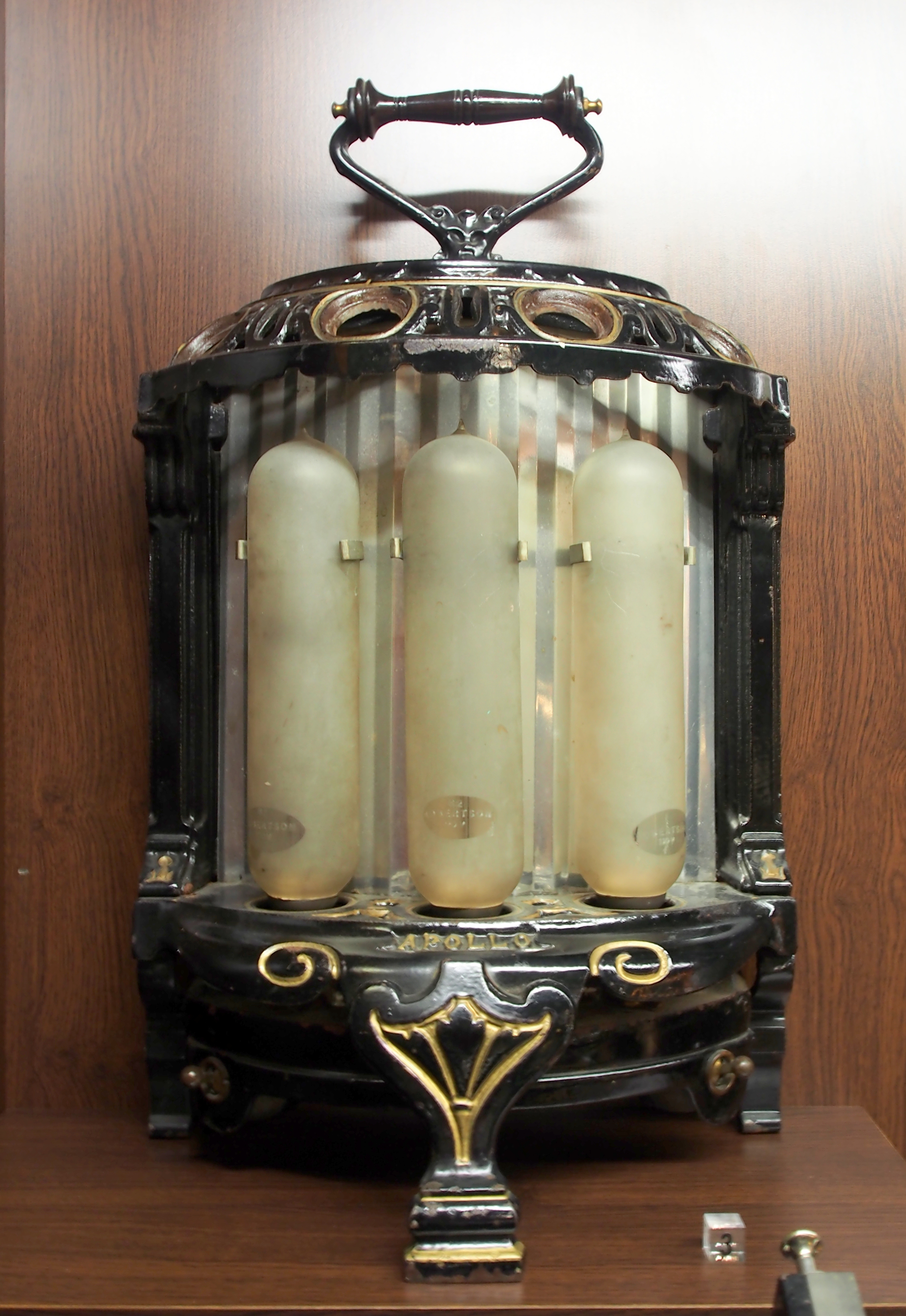 Photographed in Mulhouse, France.